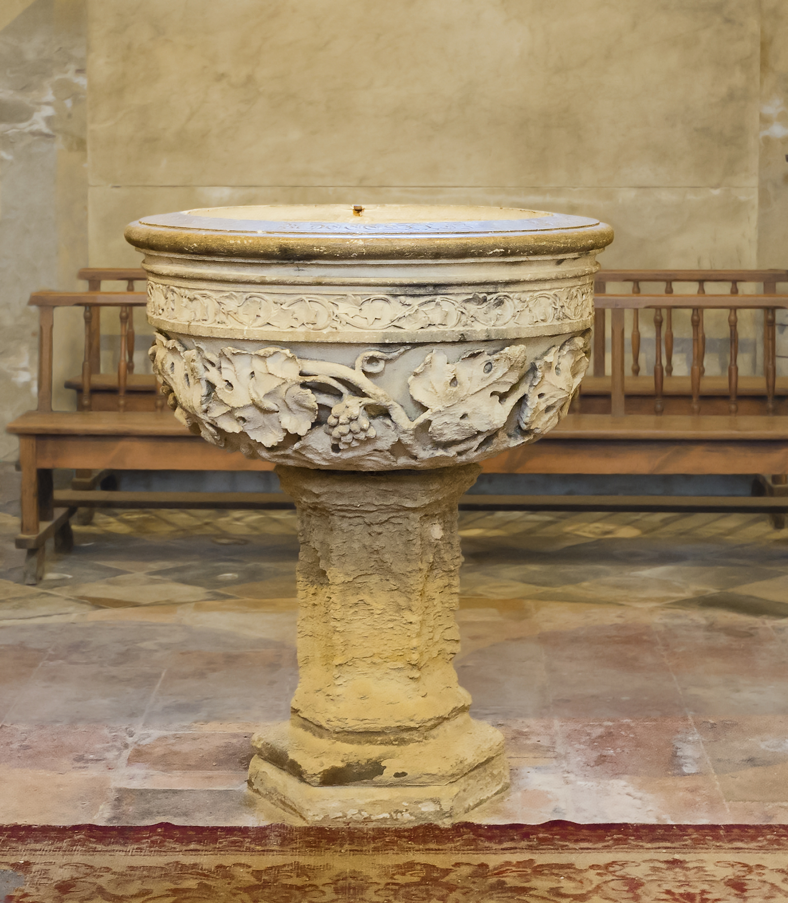 Baptismal font, Toulouse Cathedral- Chapel of baptismal font